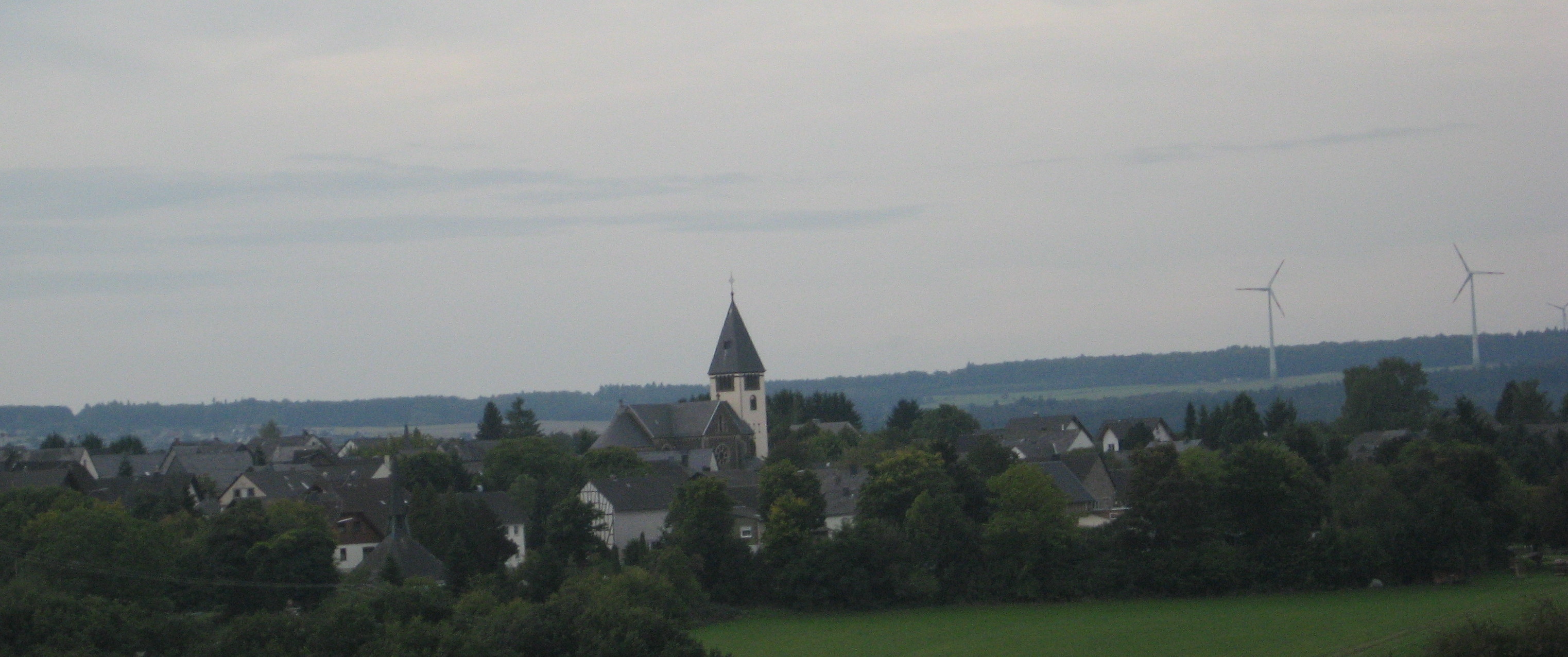 Village Buch in the Hunsrück landscape, Germany.